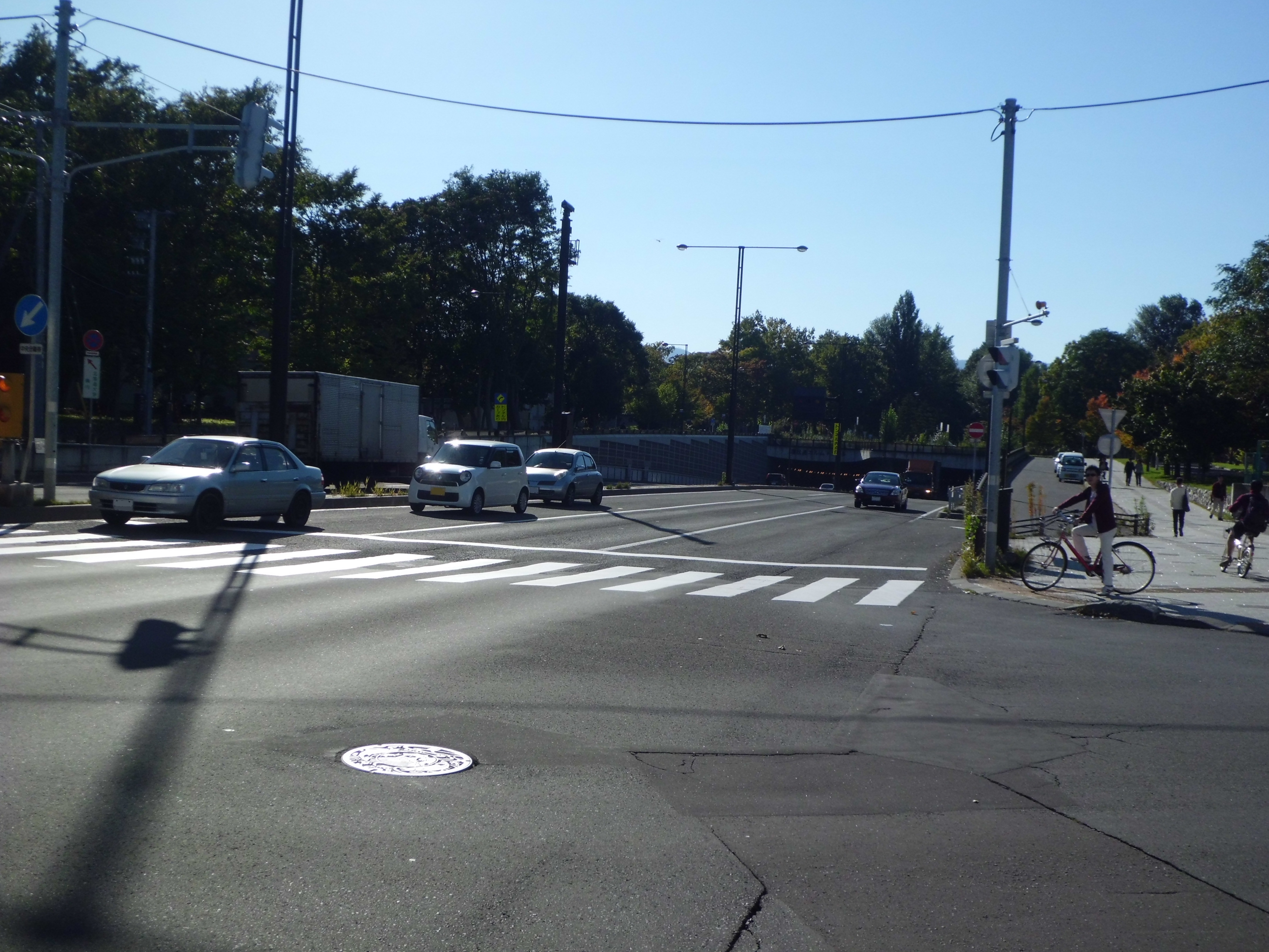 Eastern exit of Elm Tunnel